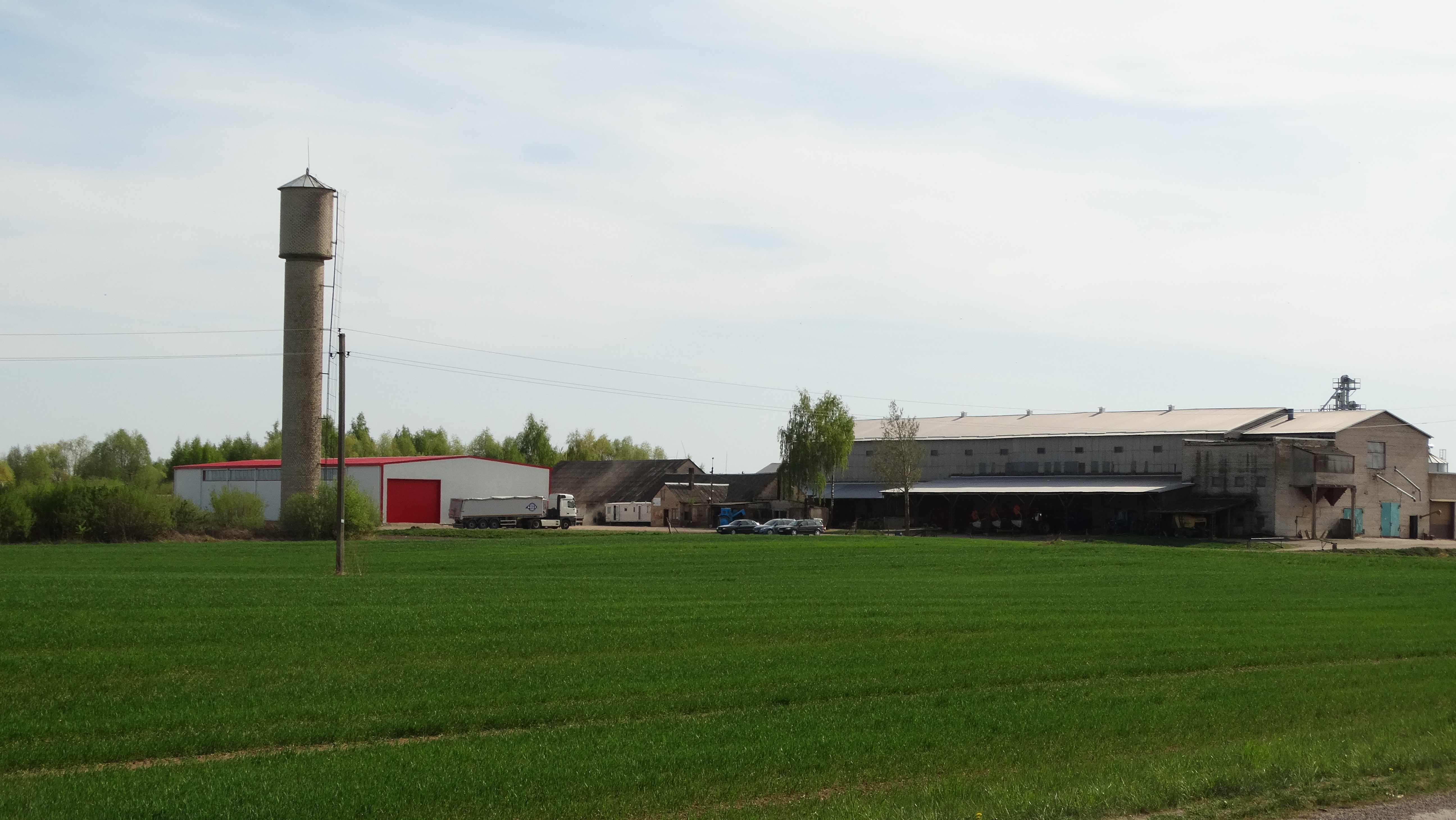 Degėsiai, Pakruojis District, Lithuania